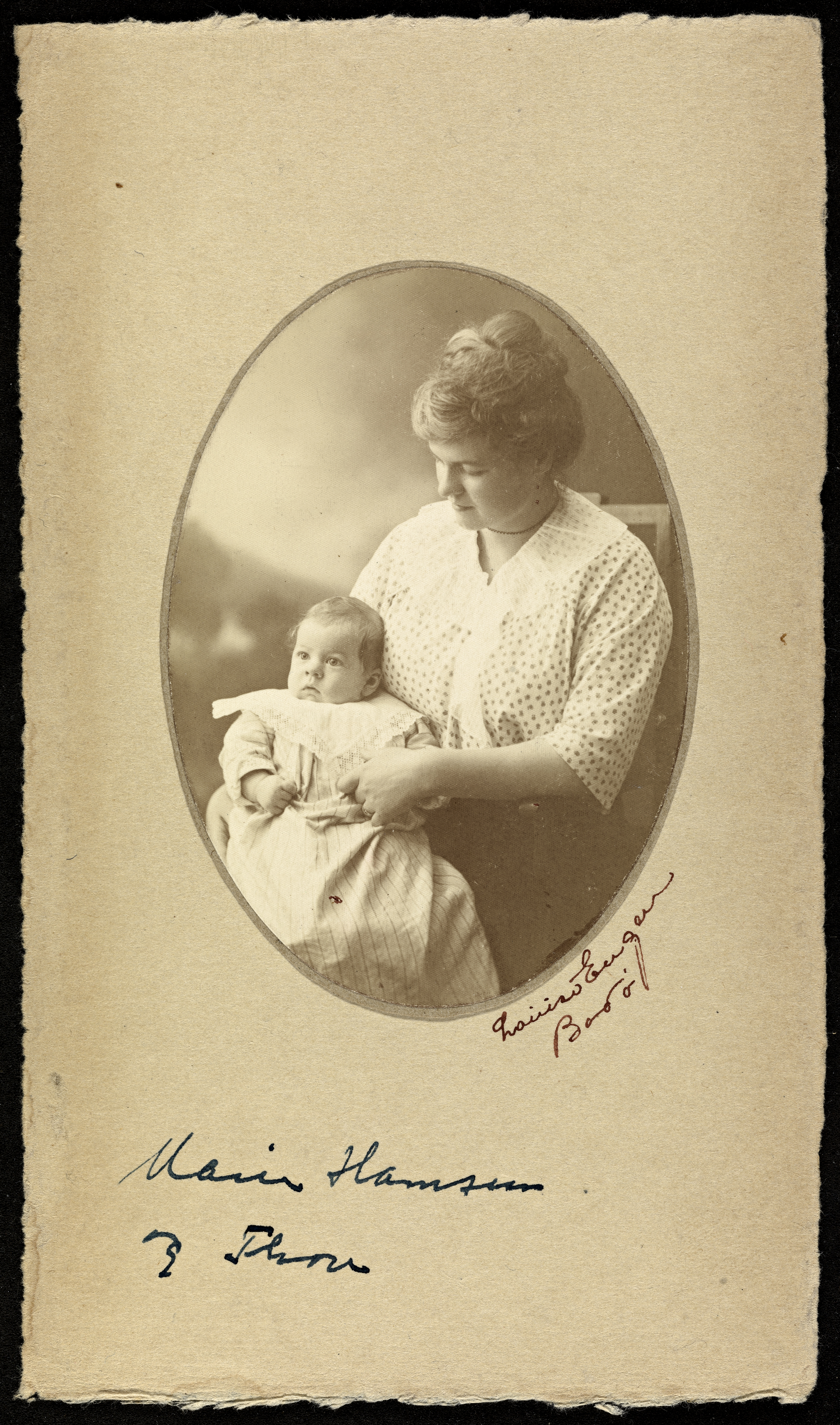 Dato / Date: ca. 1912/1913 Sted / Place: Nordland, Bodø Fotograf / Photographer: Louise Engen (Bodø) Digital kopi av original / Digital copy of original: s/h papirpositiv Eier / Owner Institution: Nasjonalbiblioteket / National Library of Norway Lenke / Link: Bildesignatur / Image Number: bldsa_HA0380